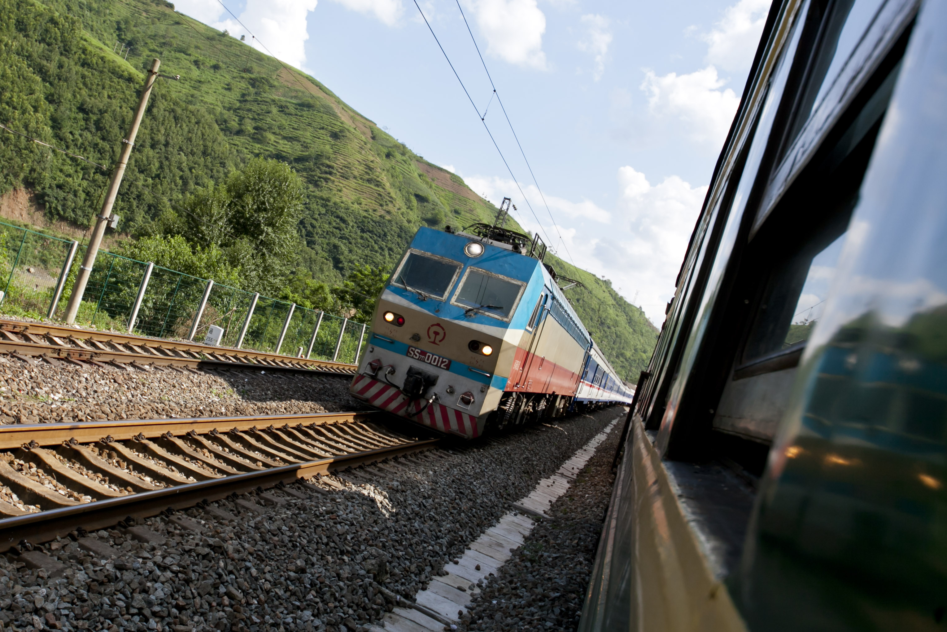 T7 train at Juting Station, Baocheng Railway